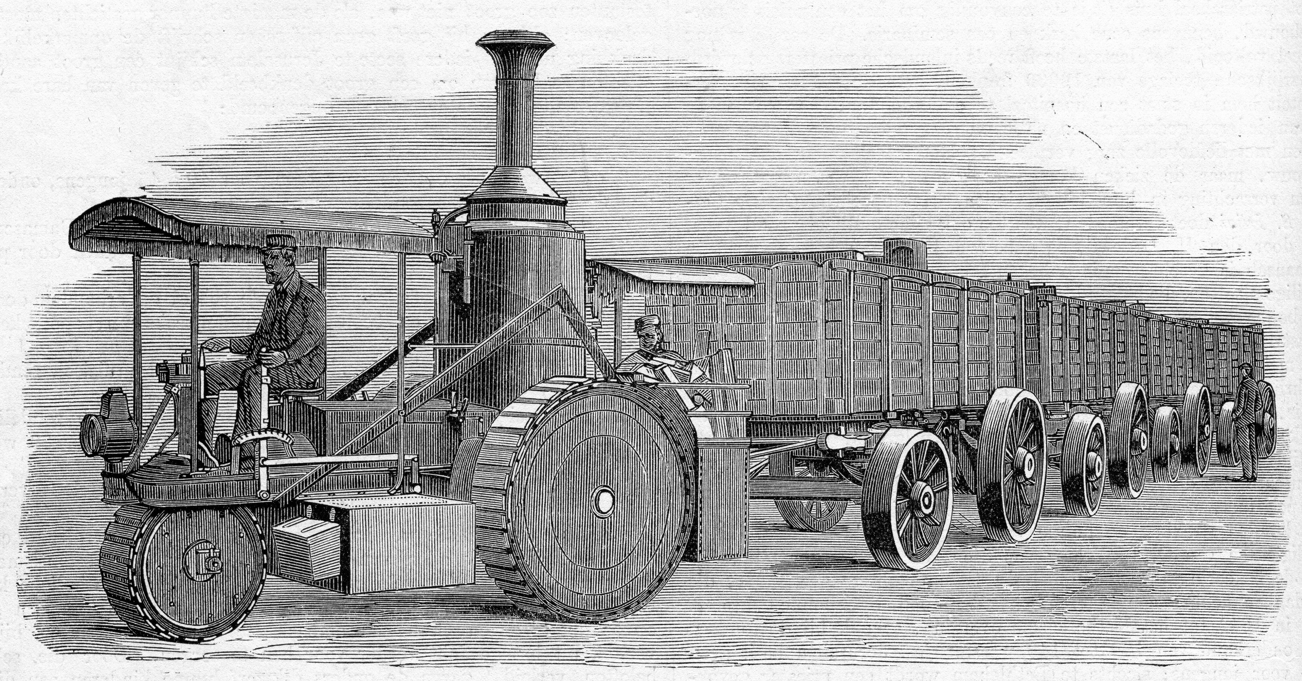 Kath. Illustratie 1869-1870 nr 44 p.352 Thomson road steamer with charcoal wagons